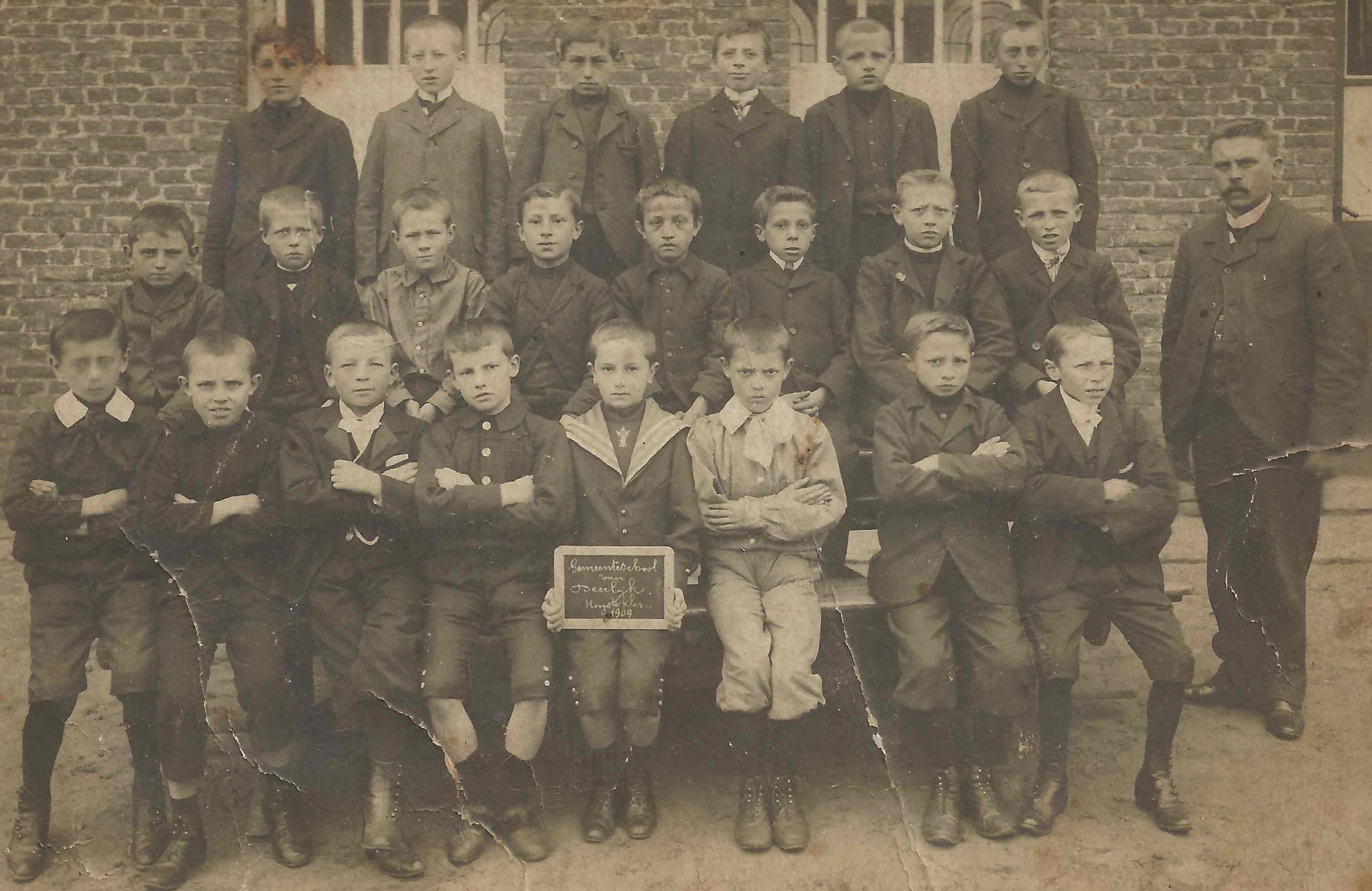 Children, born in 1898 and 1899, of the Community School (Gemeenteschool) of Deerlijk. Picture taken in 1909. First (front) row, from left to right: Lionel Vercruysse, Alberic Vlieghe, Gerard Vangheluwe (January 21, 1998 - September 19, 1977), Leon Defraeye (June 6, 1899 - March 22, 1977), Joseph Ovelacq, Gentil Hinnekens, Remi Caveye, Odilon Decock. Second (middle) row, from left to right: Jeroom Depamelaere, Hector Desimpelaere, x Loquet, Adelson Buyze, Remi Verplancke, Abdon Declercq, Georges Ottevaere, Juul Maes, Prosper Opsomer (teacher). Third (back) row, from left to right: Julien Rohaert, Odilon Herman, Alois Deschamps, Valeer Vanneste, Maurice Devroe, Georges Putman. Origin of Picture: original hard copy inherited from my great-grandfather Gerard Vangheluwe (on the picture, first row). Gerard Vangheluwe was born in 1898 at Deerlijk as a son of F. Vangheluwe and Marie Nathalie Surmont, he was a grandson of Jean Baptiste Surmont and Susanne d'Huyvetter (from Ingooigem) and a great-grandson of François Petrus Surmont and Marie Therese de Croock. His spouse was Zozyma Verhaeghe (September 5, 1898 - July 19, 1981), daughter of Theophile Verhaeghe and Marie Louise Devos.